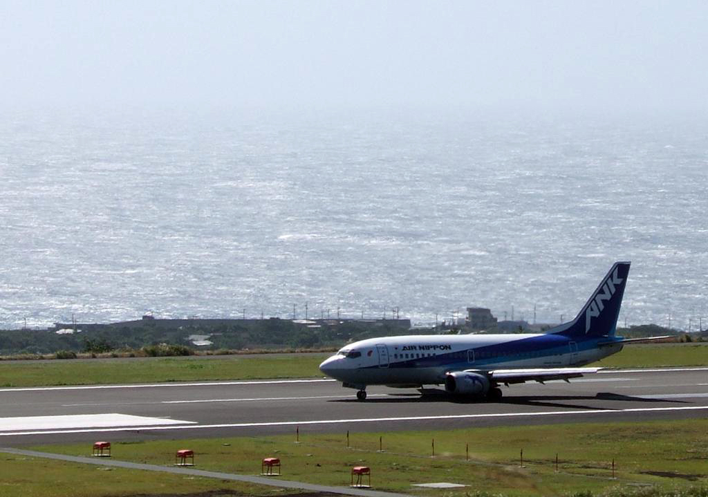 Hachijōjima Airport